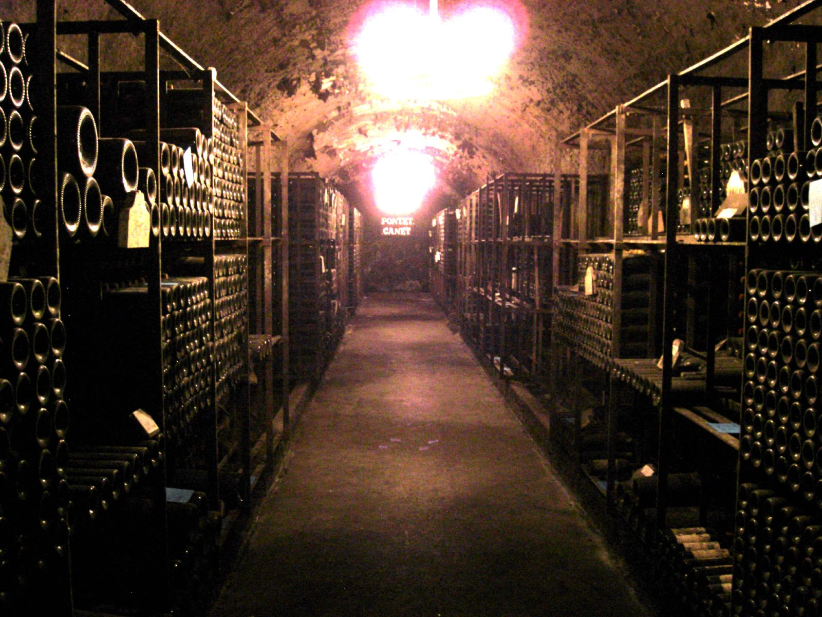 Underground wine cellar for the French wine producer Chateau Pontent-Canet in Bordeaux